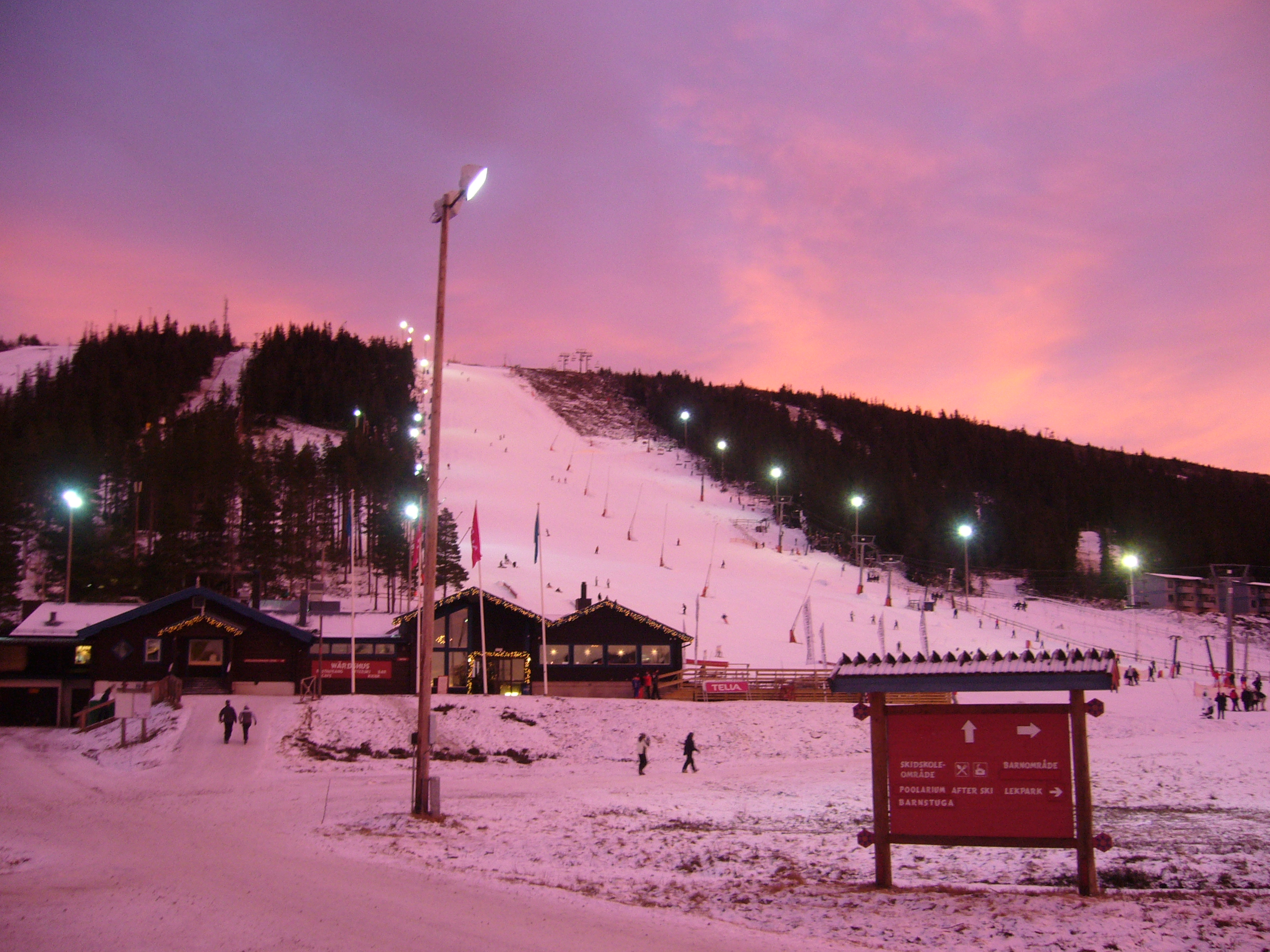 Skislope "Stora backen" and sunset in skiresort Sälen, Sweden.